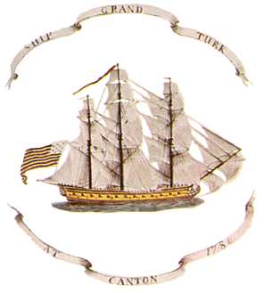 Painting of the Grand Turk on the Grand Turk Punch Bowl 16 inches diameter. Chinese Lowestoft ware/made at Canton, 1786, tor Elias Hasket Derby. This bowl was given to Captain Ebenezer West, now owned by the Peabody Essex Museum. See The log of the Grand Turks, (Published 1926, Houghton Mifflin Co., Boston & New York: ) by Robert E. Peabody.